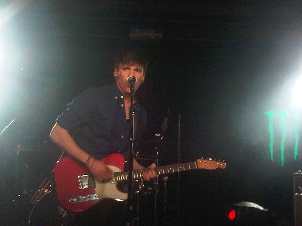 Mike Sparks of Canterbury performing at Southampton Takedown Festival on 18 March 2012.